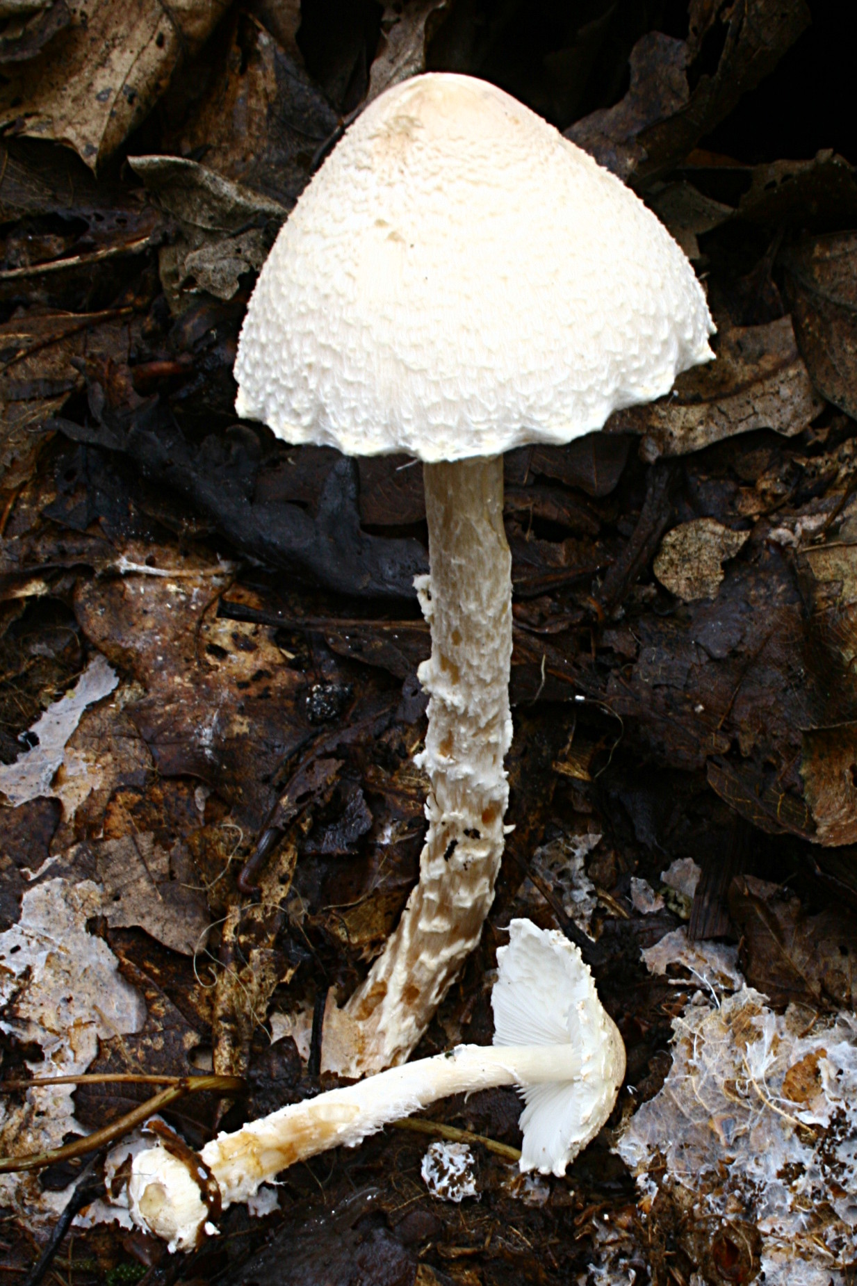 Lepiota clypeolaria (or L. ochraceosulfurescens) in a wood near Les Ulis, France.